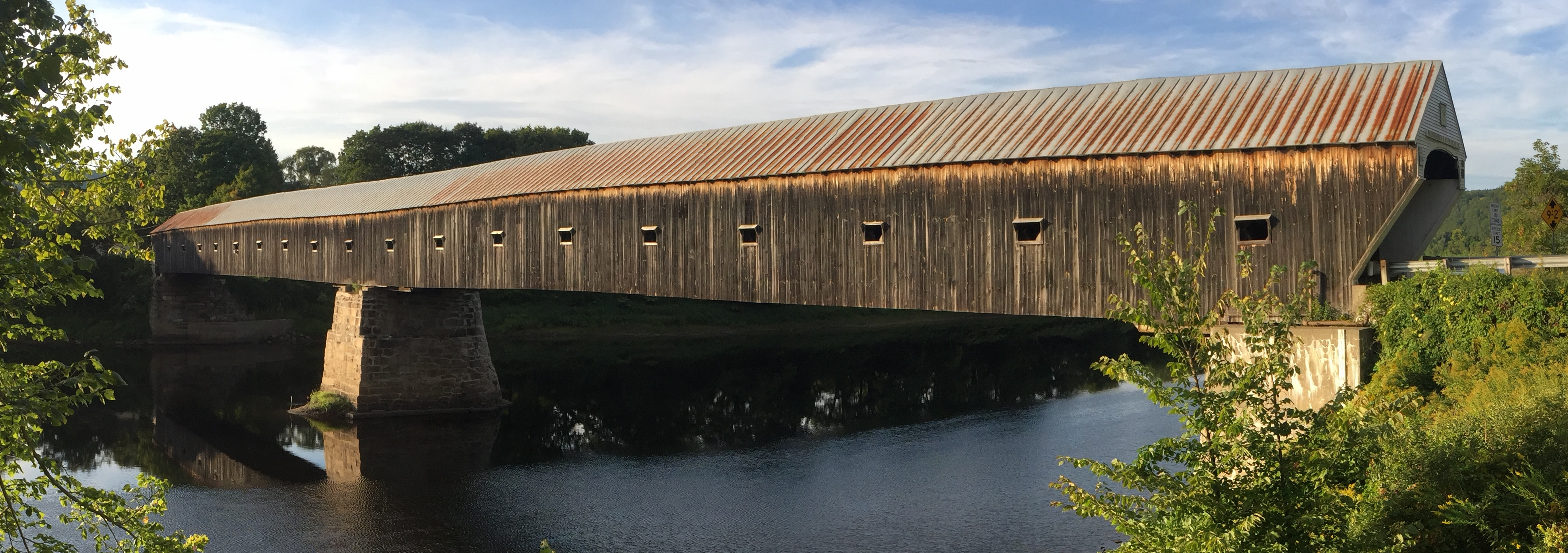 Cornish-Windsor Bridge 2018 c